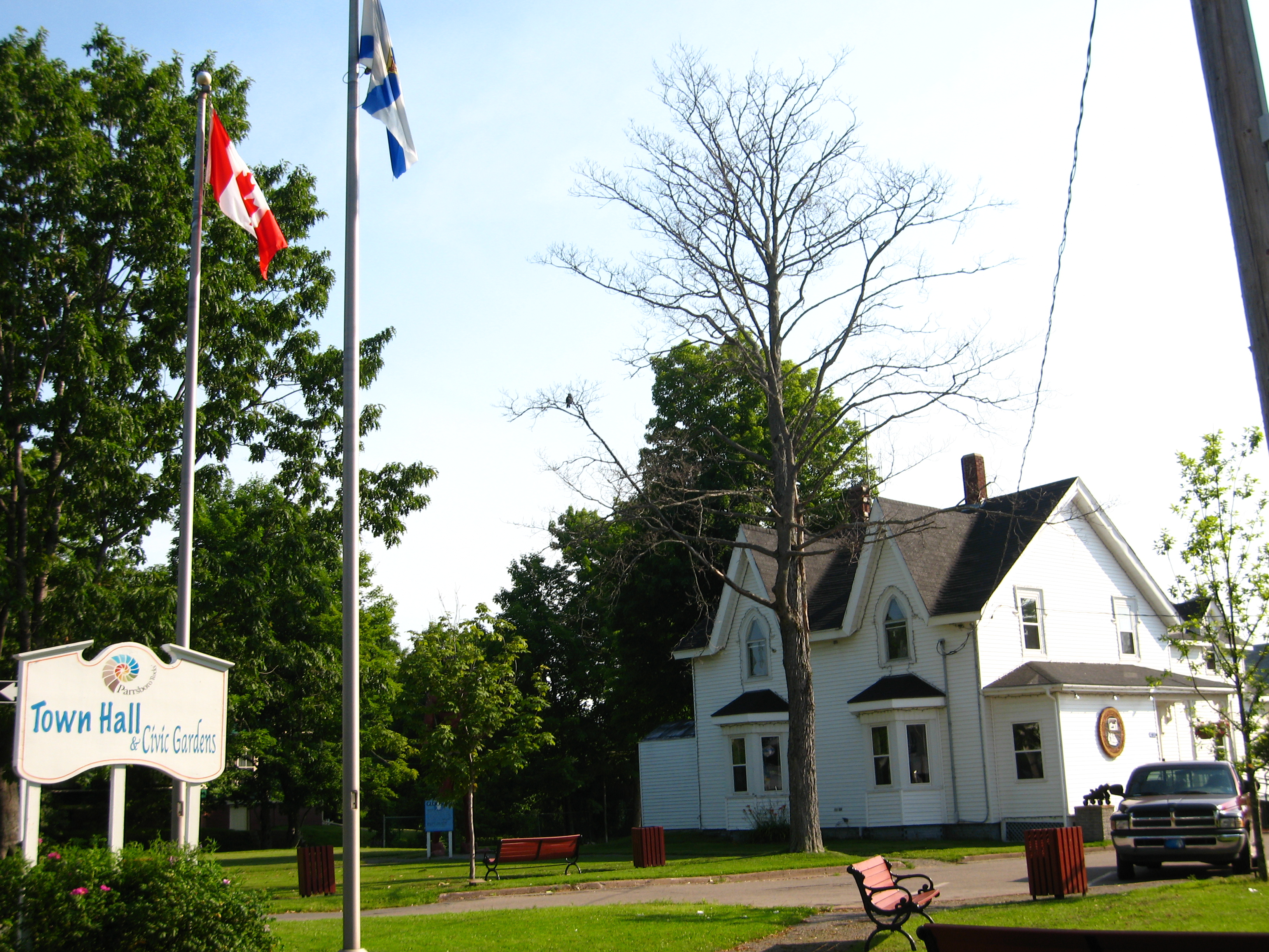 Photograph of the Town Hallen and Civic Gardens of Parrsboro, Nova Scotiaen, taken at ground level from Eastern Avenue on the Glooscap Trail.